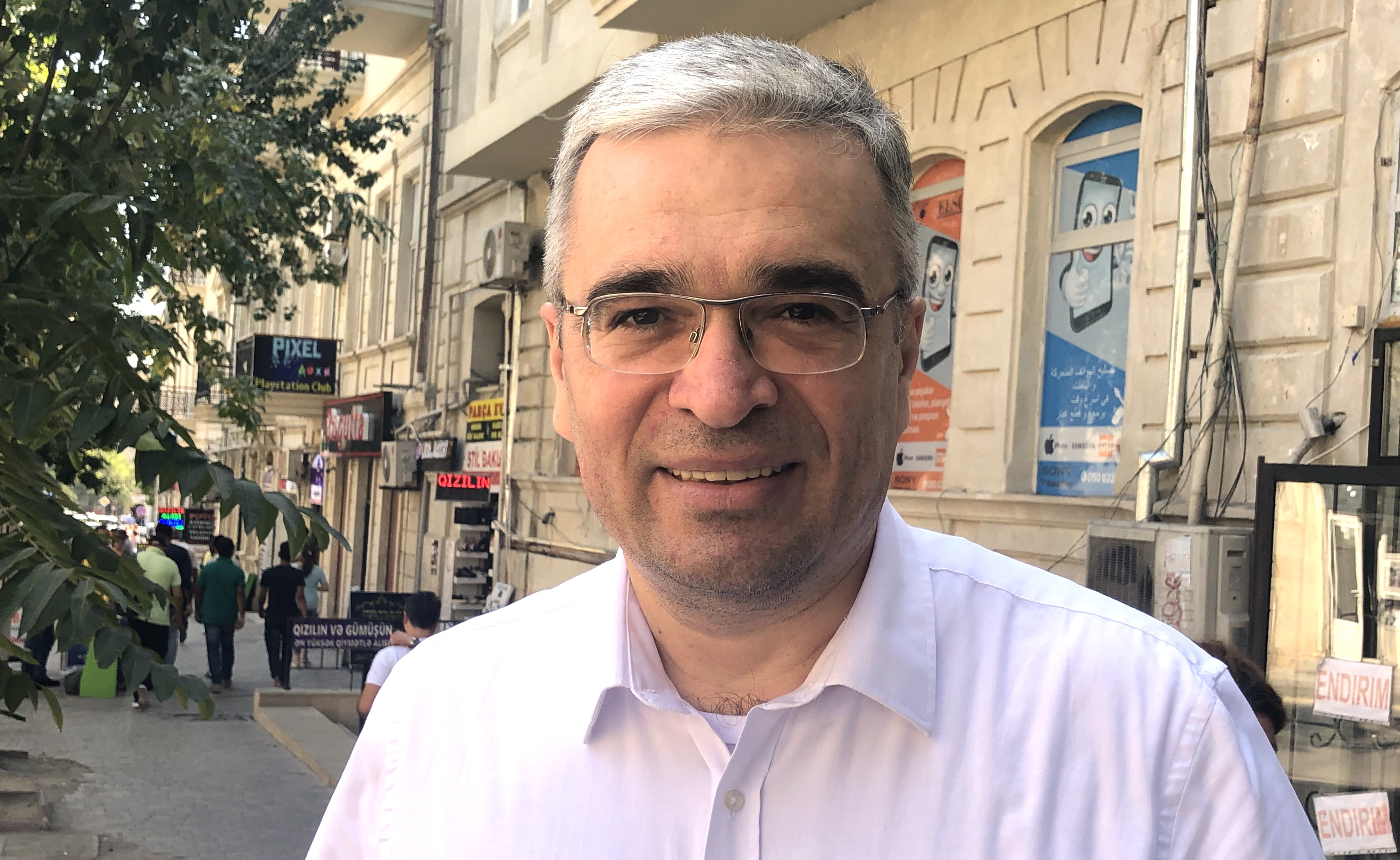 Ilgar Mammadov